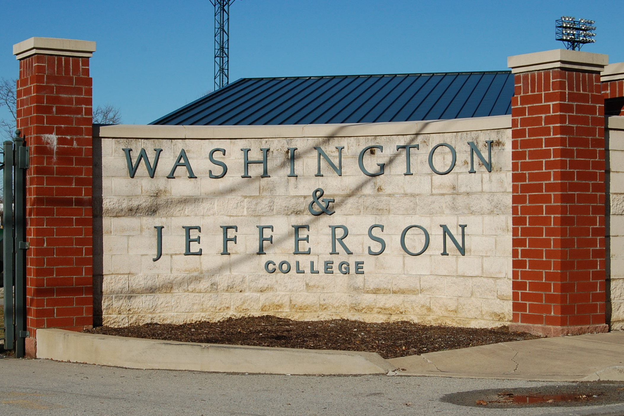 Washington & Jefferson College Sign at Cameron Stadium